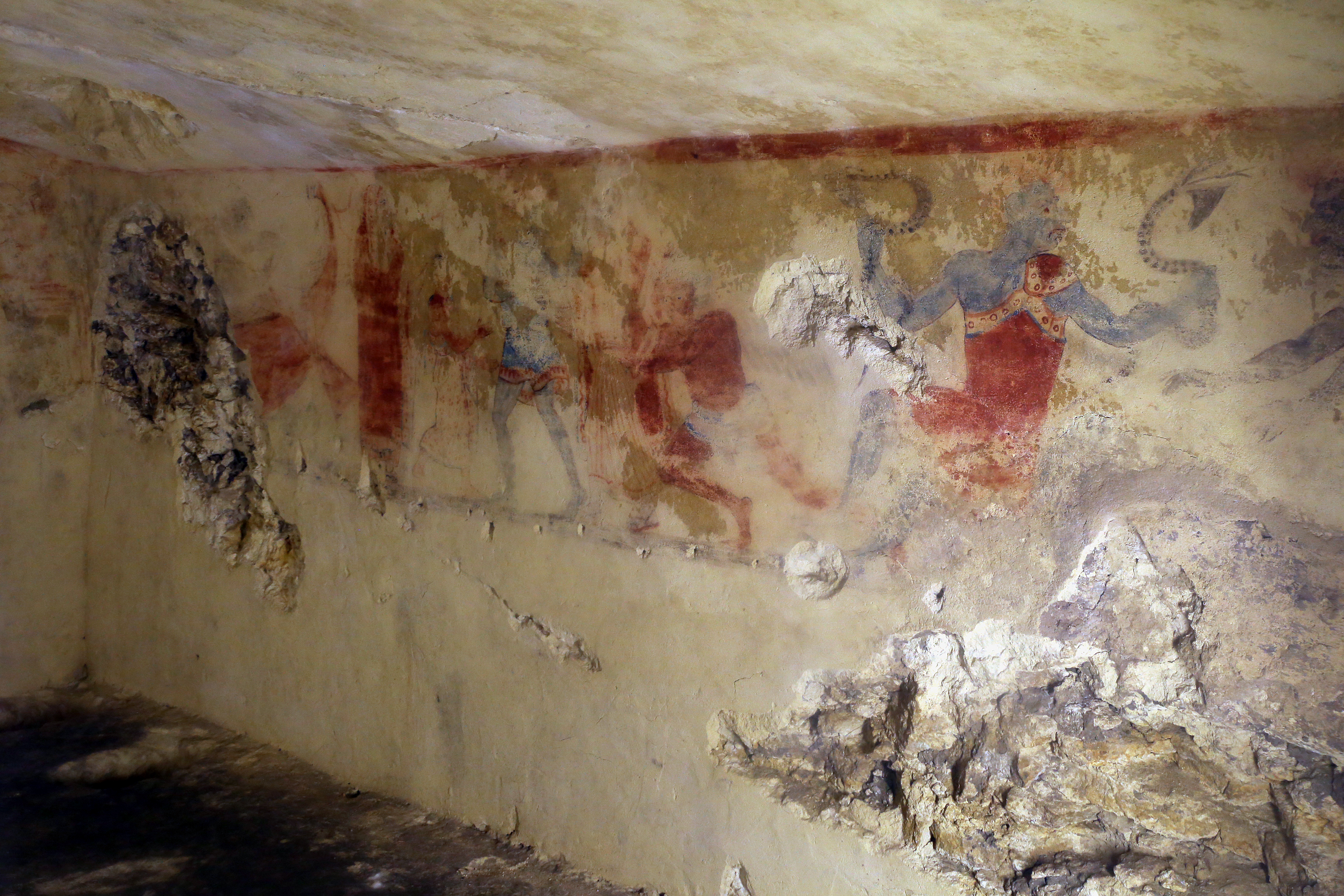 Necropoli dei Monterozzi (Tarquinia)